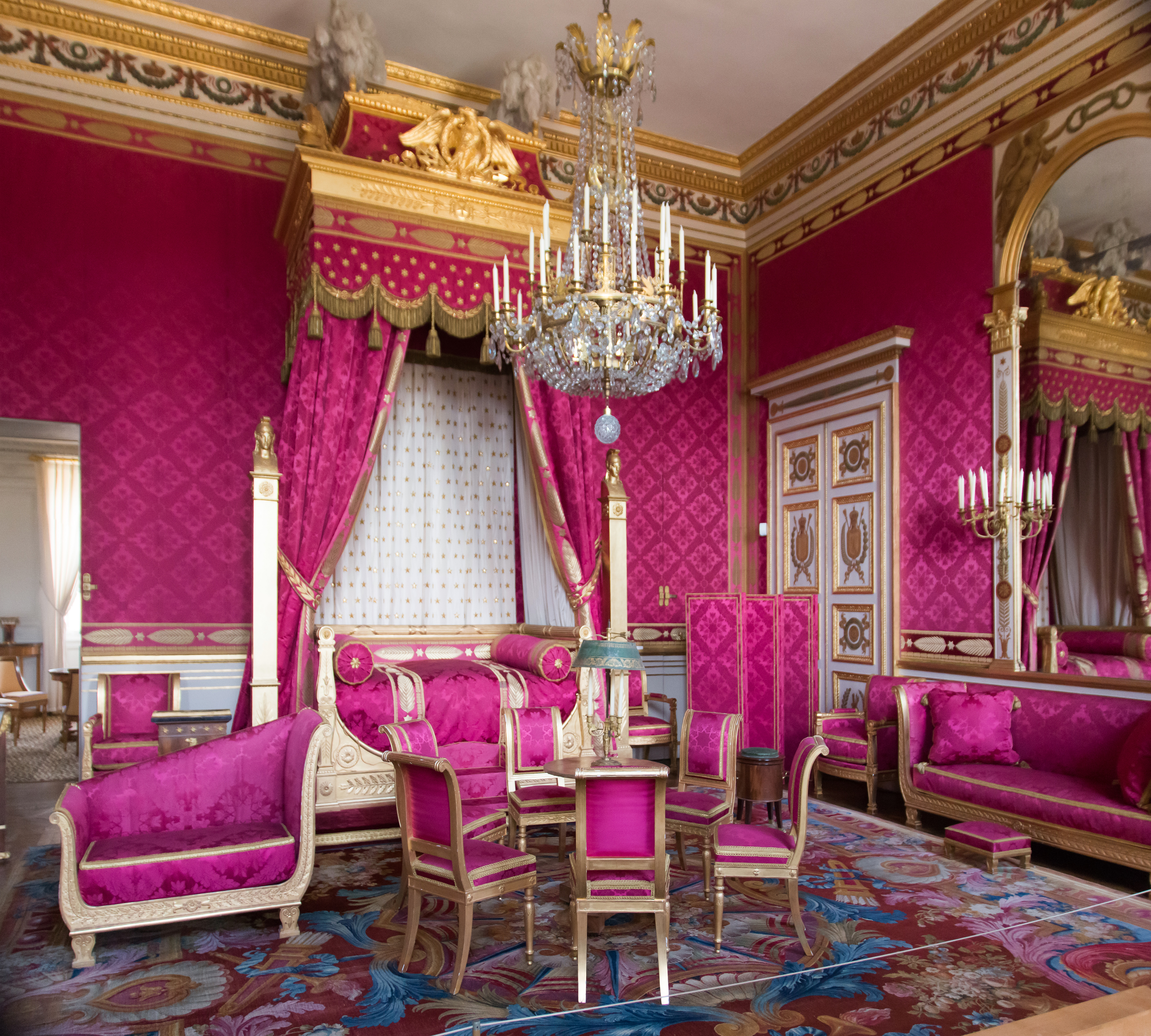 Napoleon's bedroom, decorated with the symbols of the regime, eagles, bees, palms.